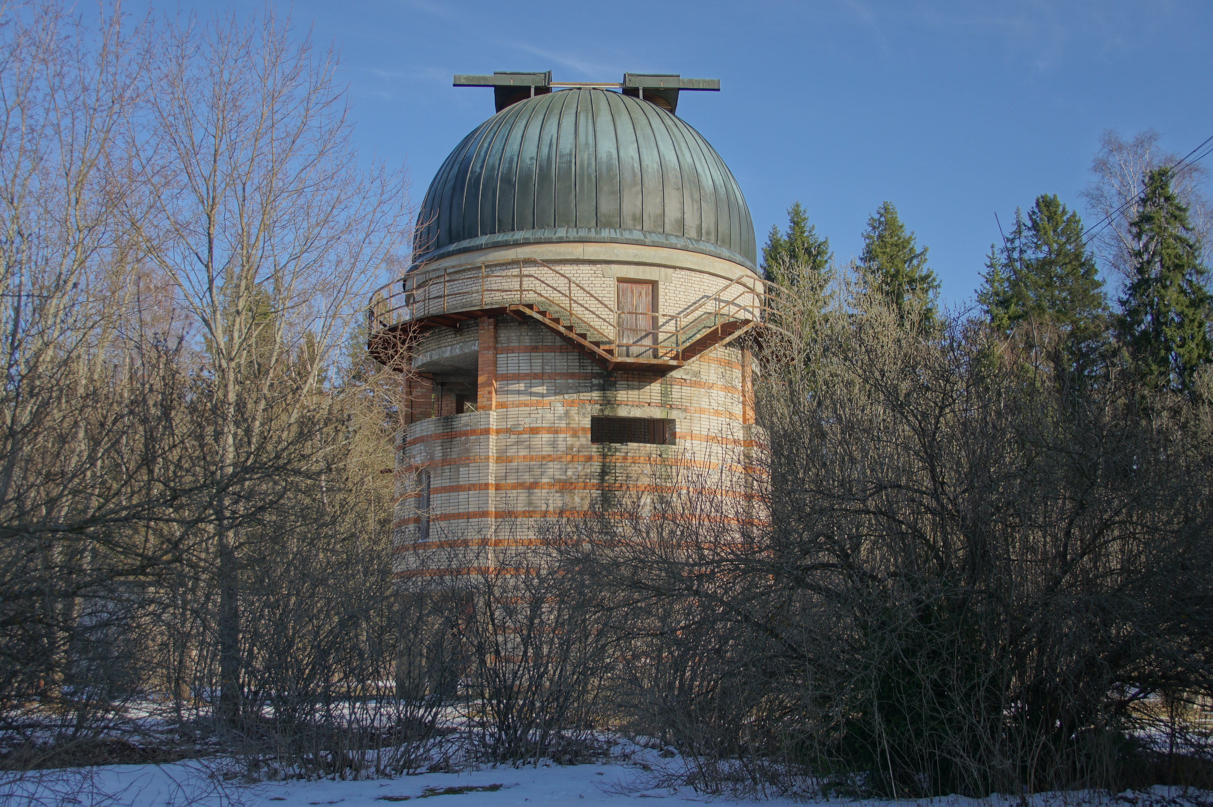 Observatory (Zvenigorod)